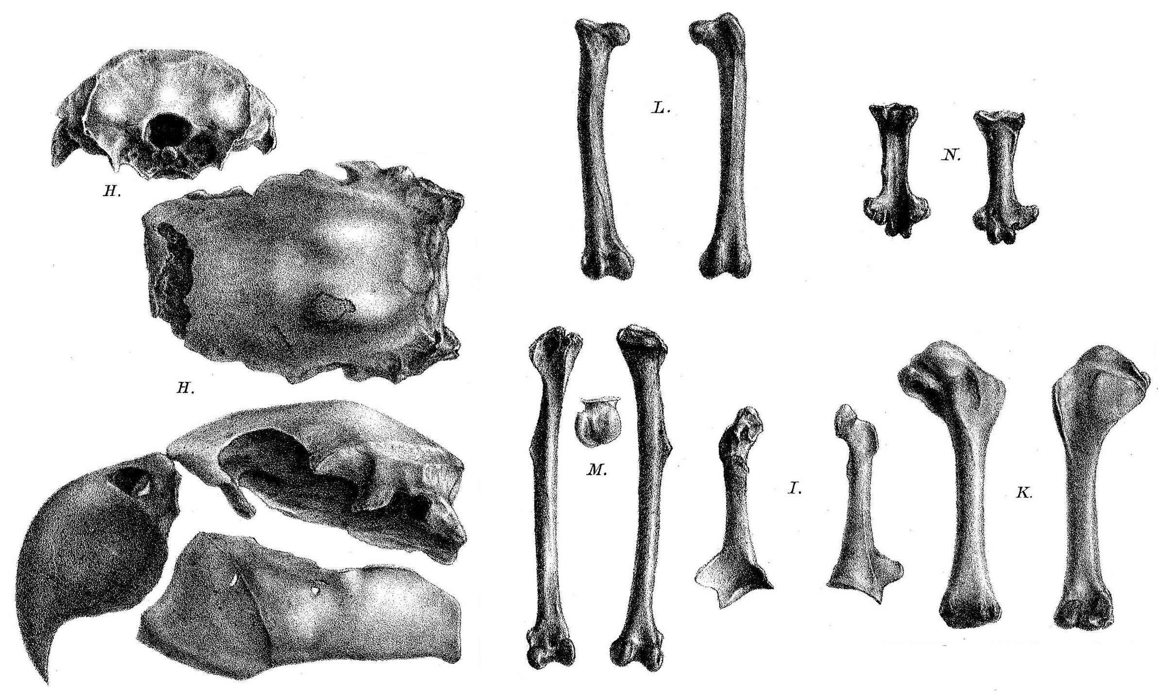 Sub-fossil skull and limb bones of Necropsittacus rodericanus.